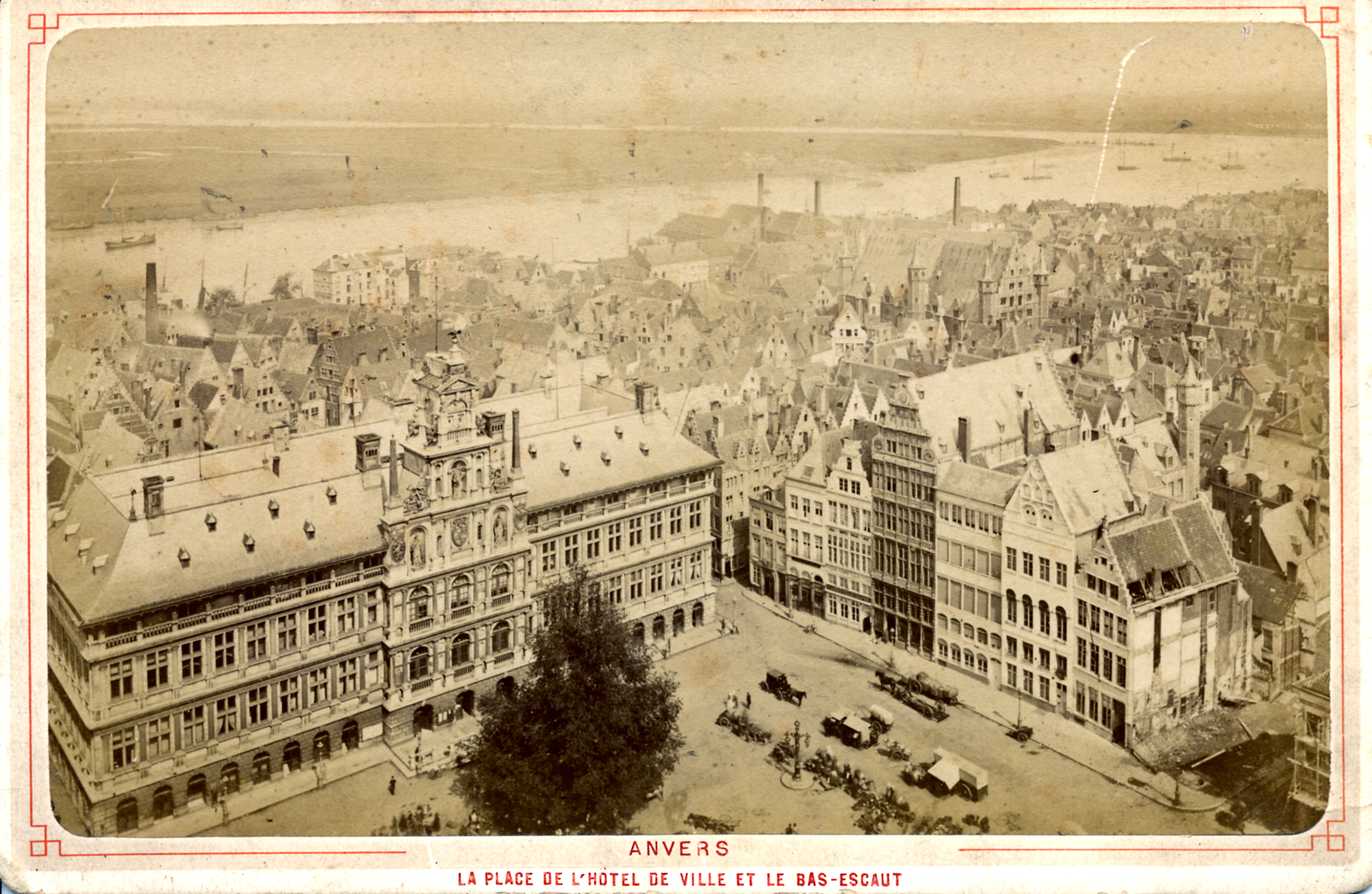 View of Antwerp,circa 1880